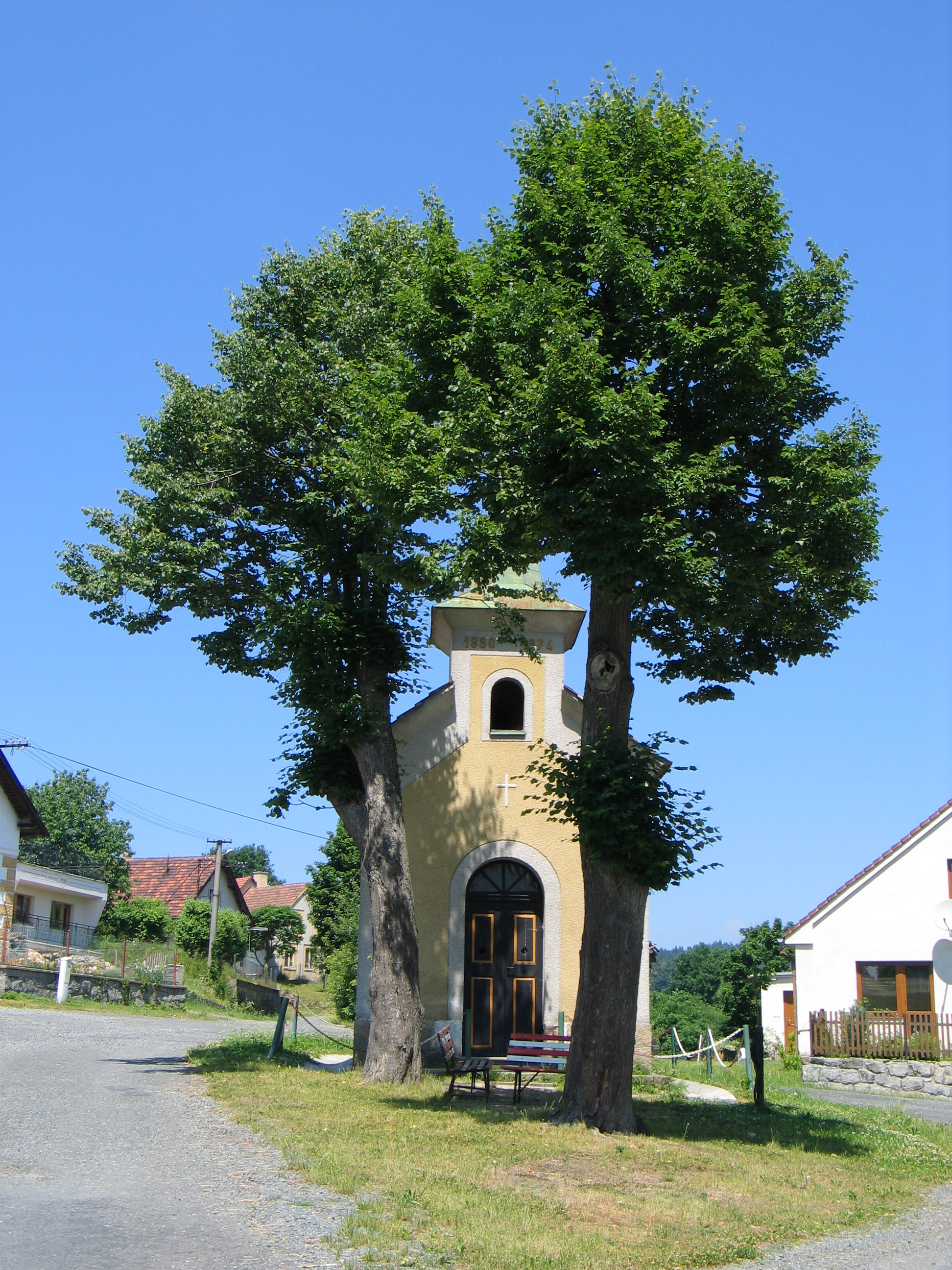 Čmelíny - village of western Bohemia